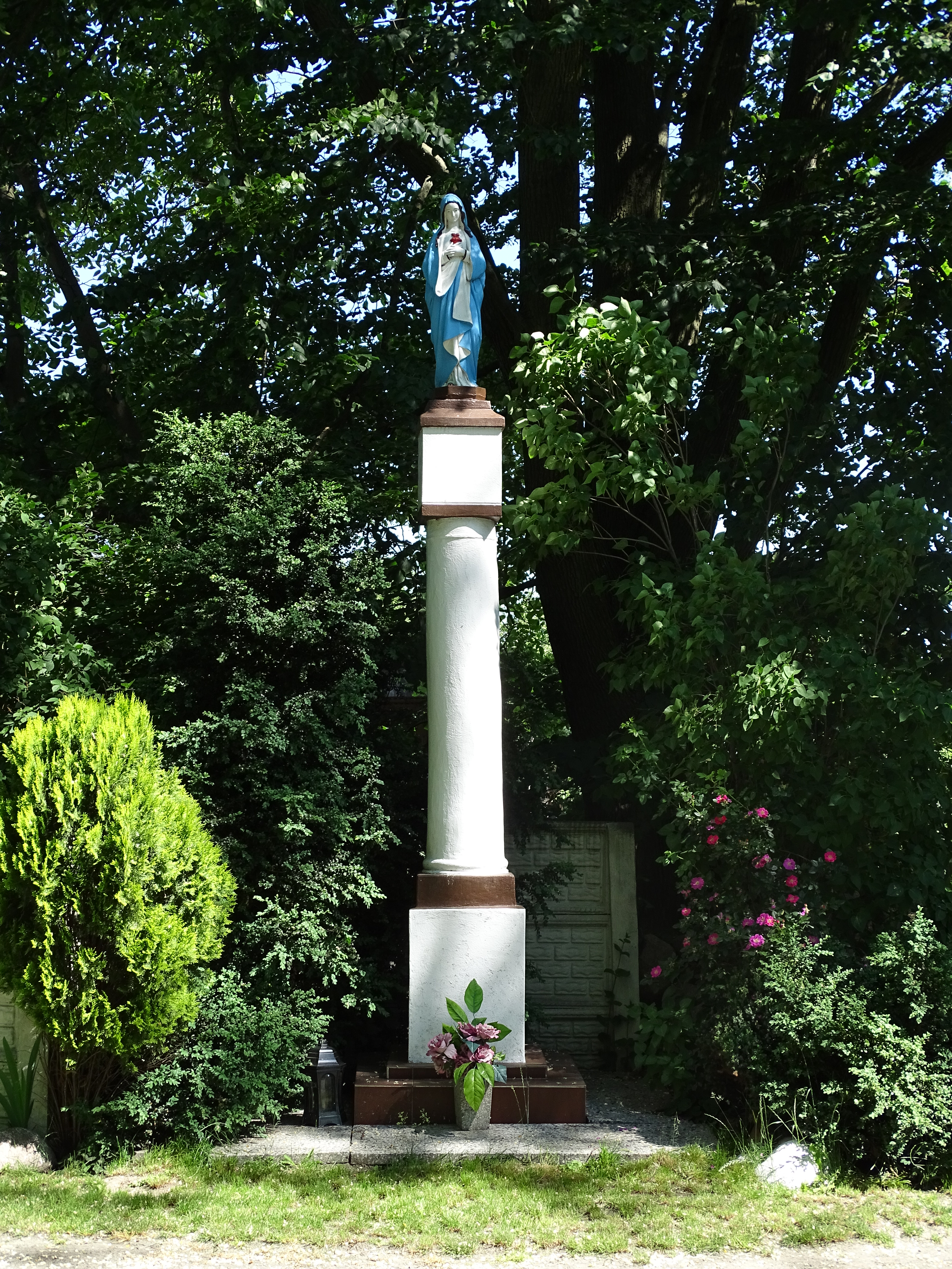 Iłówiec Wielki, Śrem county, Poland. The roadside shrine.